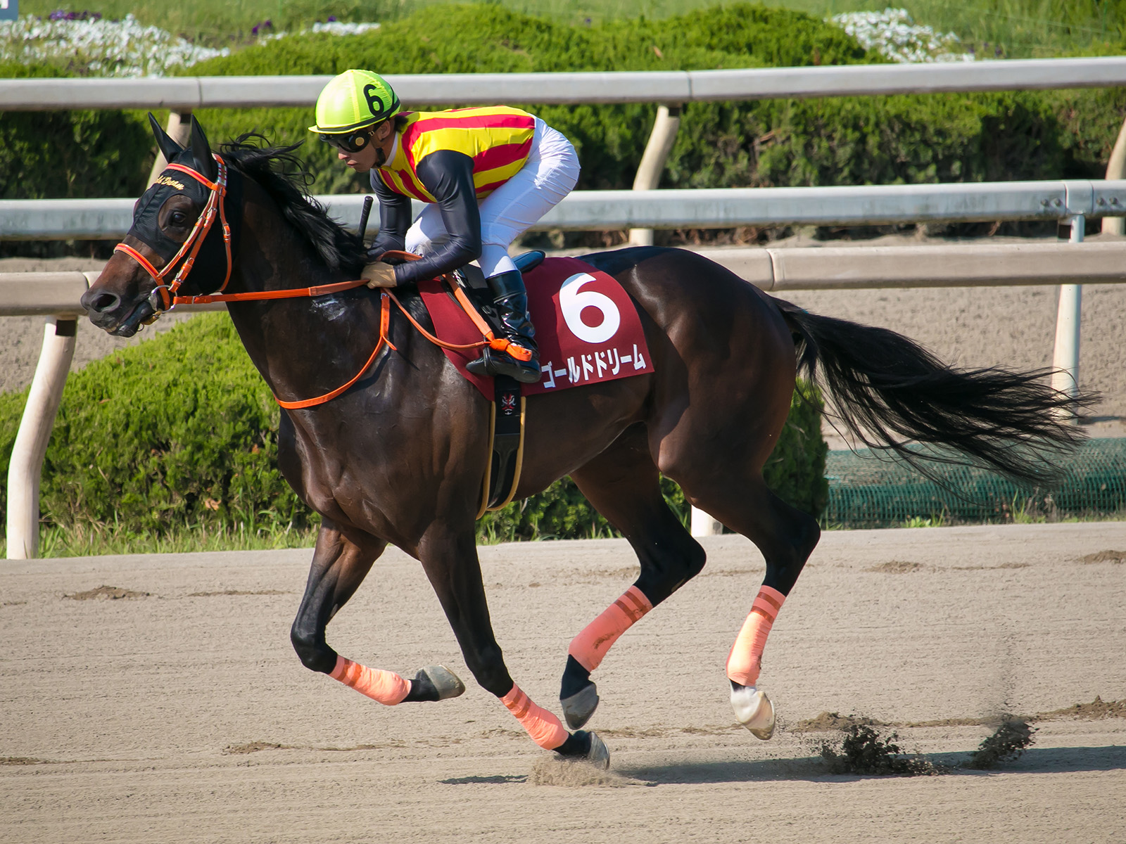 Gold Dream (Racehorse of Japan).